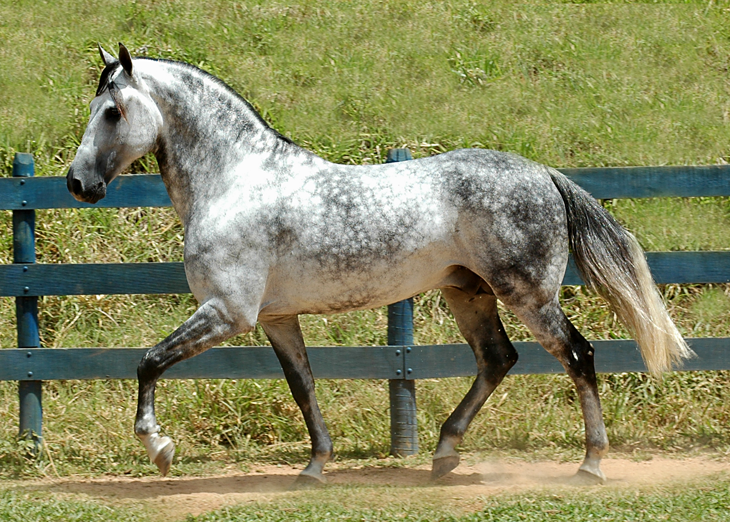 Júpiter Quitumba, Mangalarga Marchador stallion owned by Quitumba Ranch - Brazil. This horse is the National Grand Champion of the breed in 2002